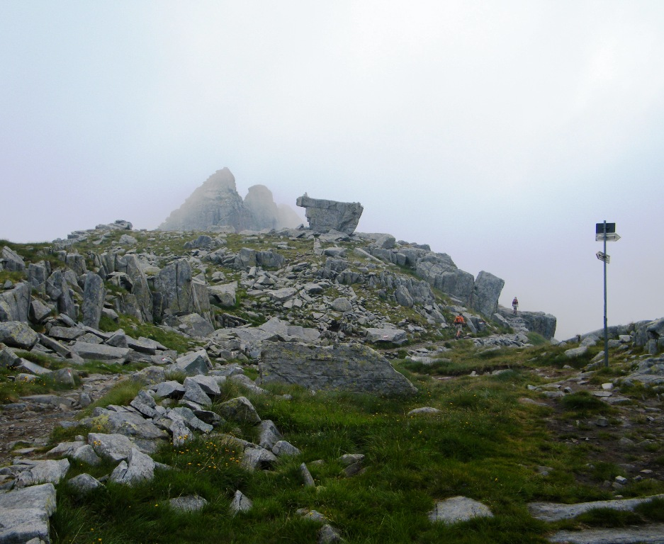 The Cow next to the Cow Pass and the Cow Lake. Breno, Val Camonica.